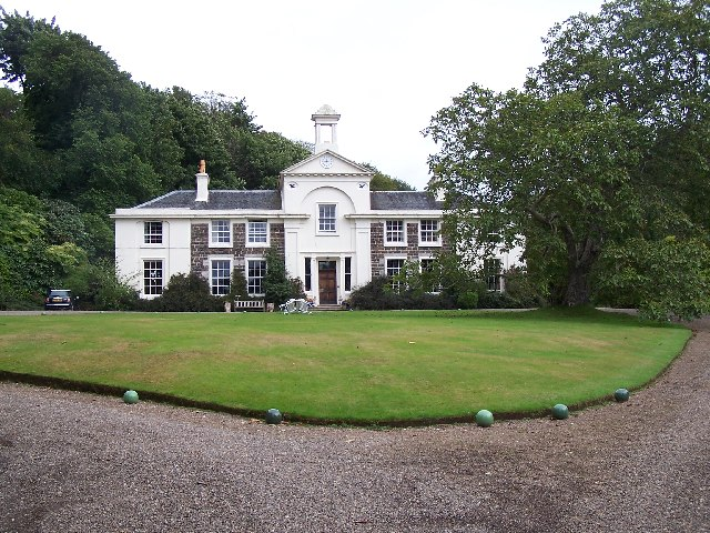 Halkshill House. North Ayrshire Council Headquarters